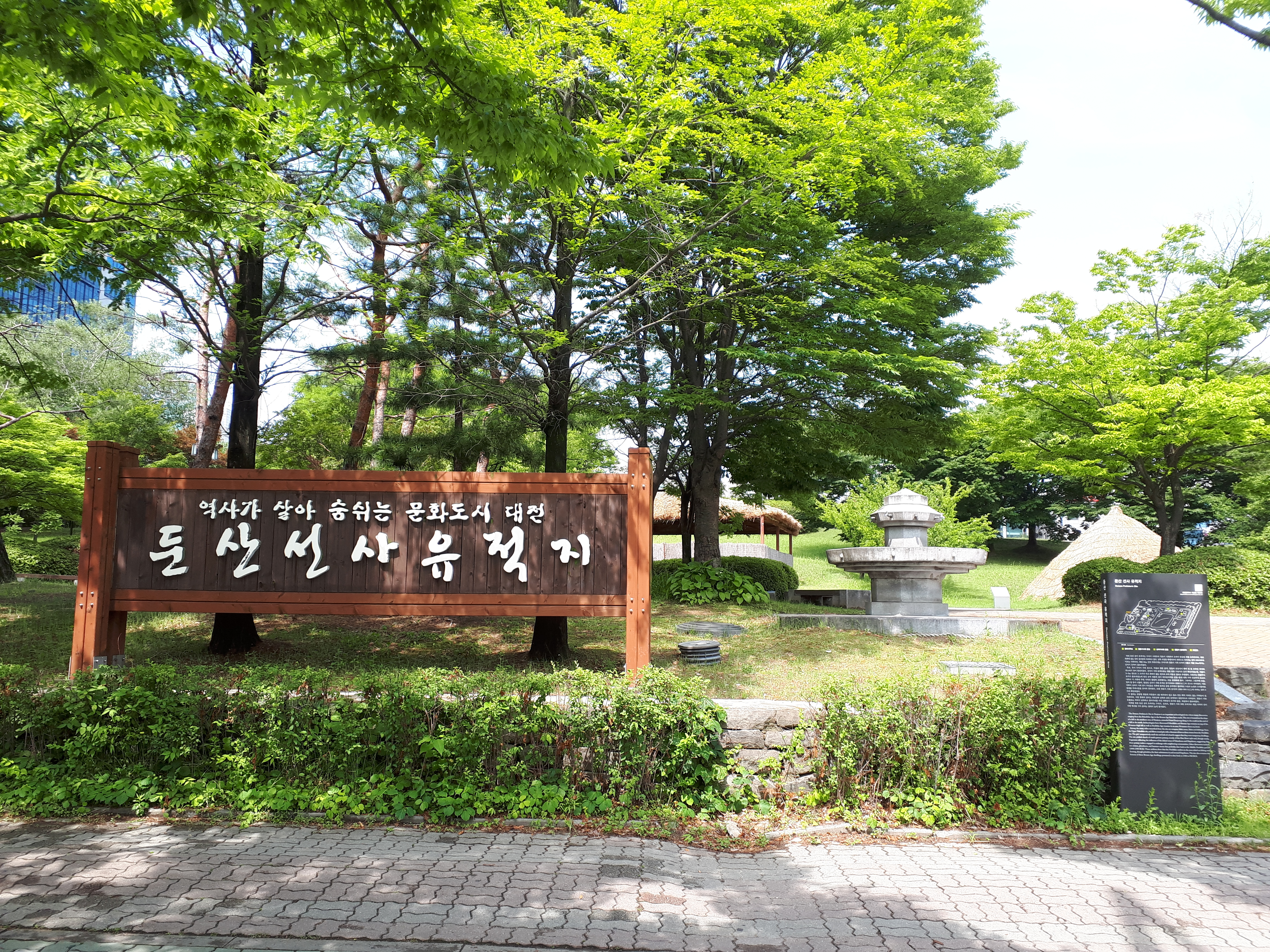 Dunsan prehistoric site East Entrance